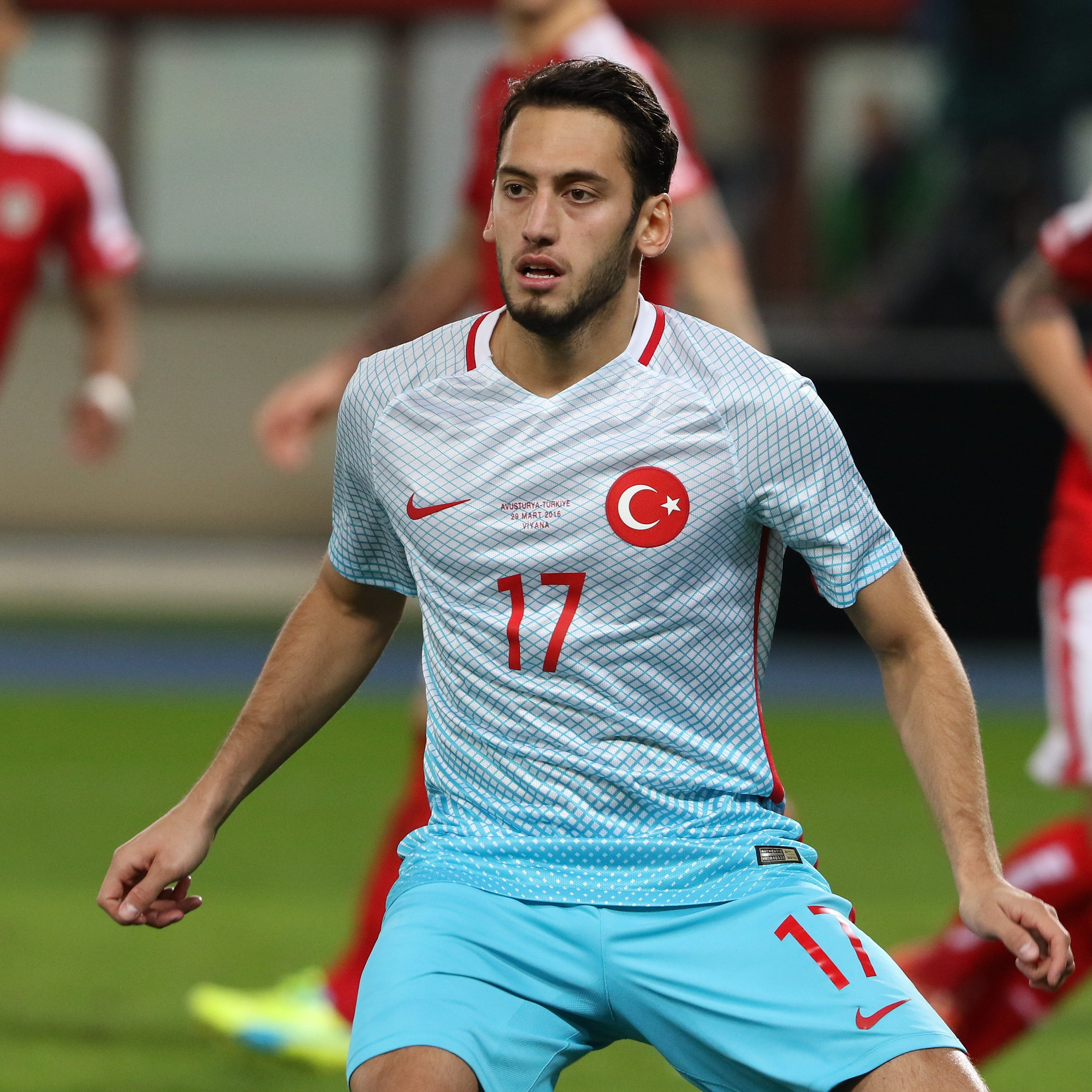 Friendly match – Austria (red shirts) vs. Turkey (blue shirts) 1–2 (1–1) on 2016-03-29 in Ernst-Happel-Stadion, Vienna – The photo shows Hakan Çalhanoğlu (Bayer Leverkusen).